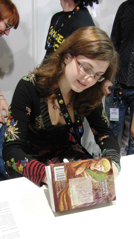 Anne Delseit at the AnimagiC Convention 2011 in Bonn.